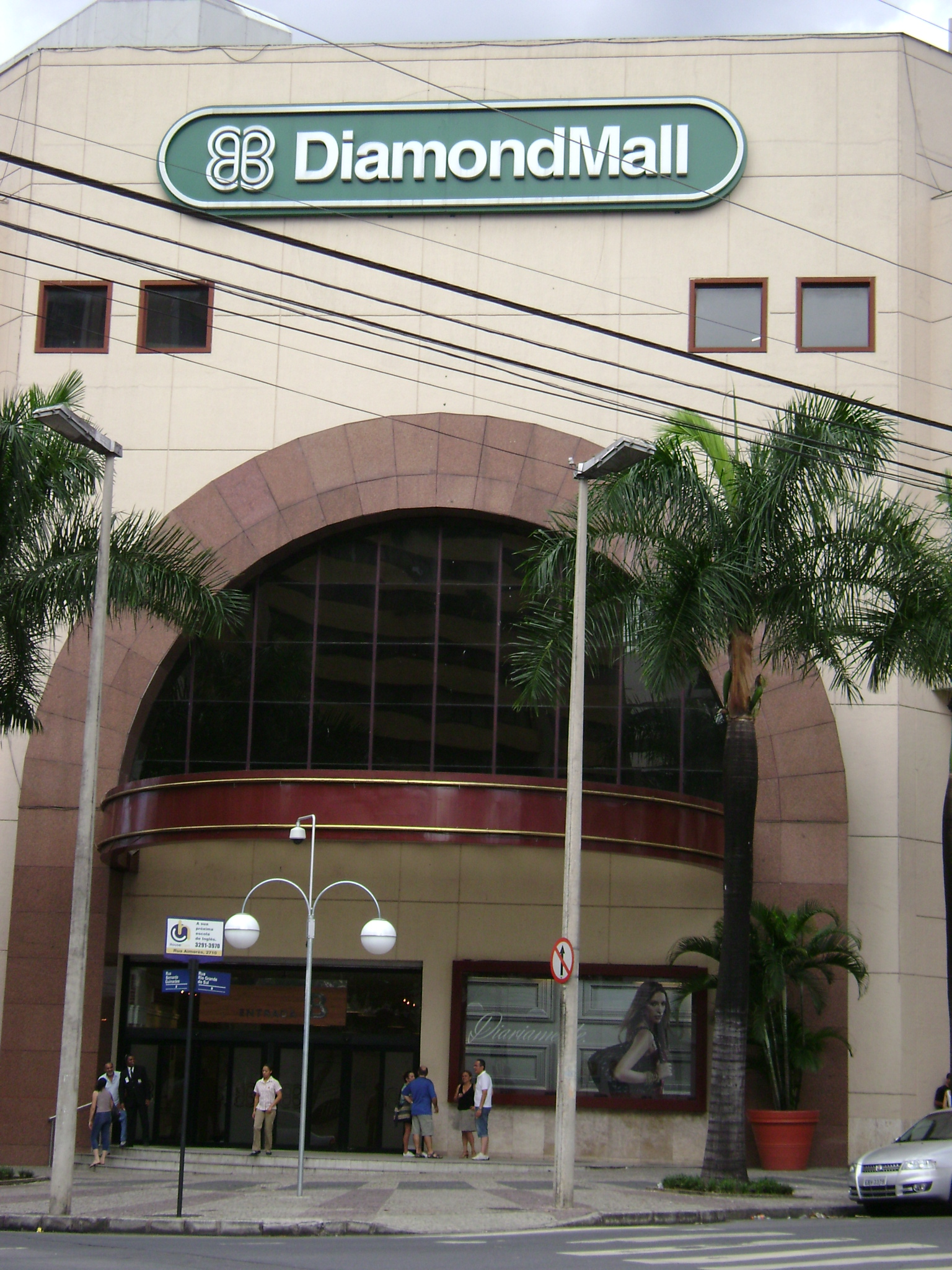 Entrance of Diamond Mall, in Belo Horizonte.